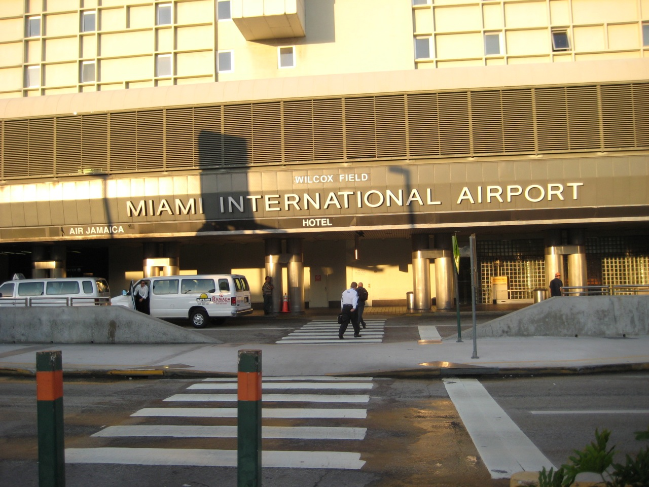 Miami International Airport.